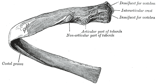 A central rib of the left side, viewed from behind.